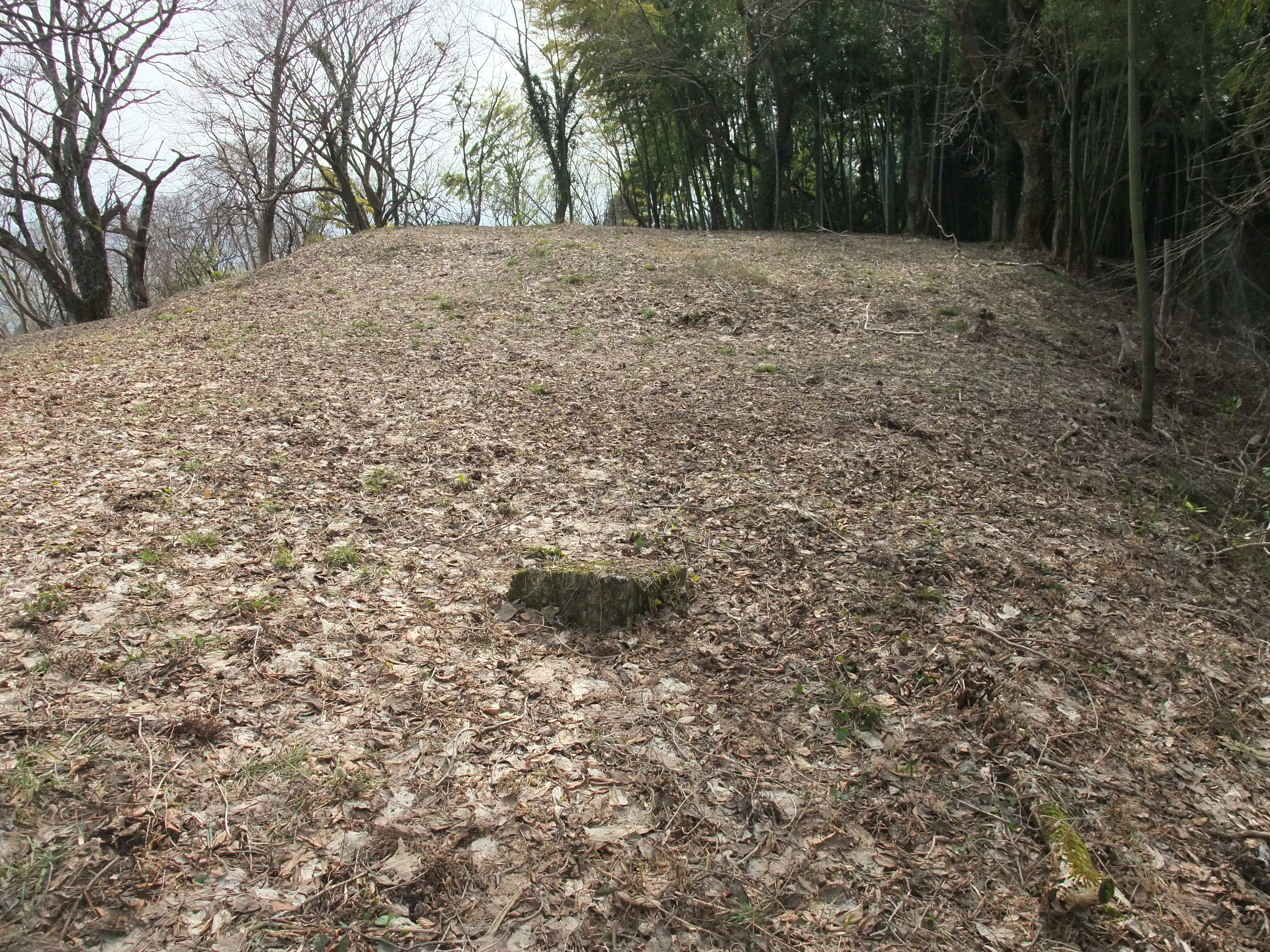 photo of akamaru castle (Toyama Japan)